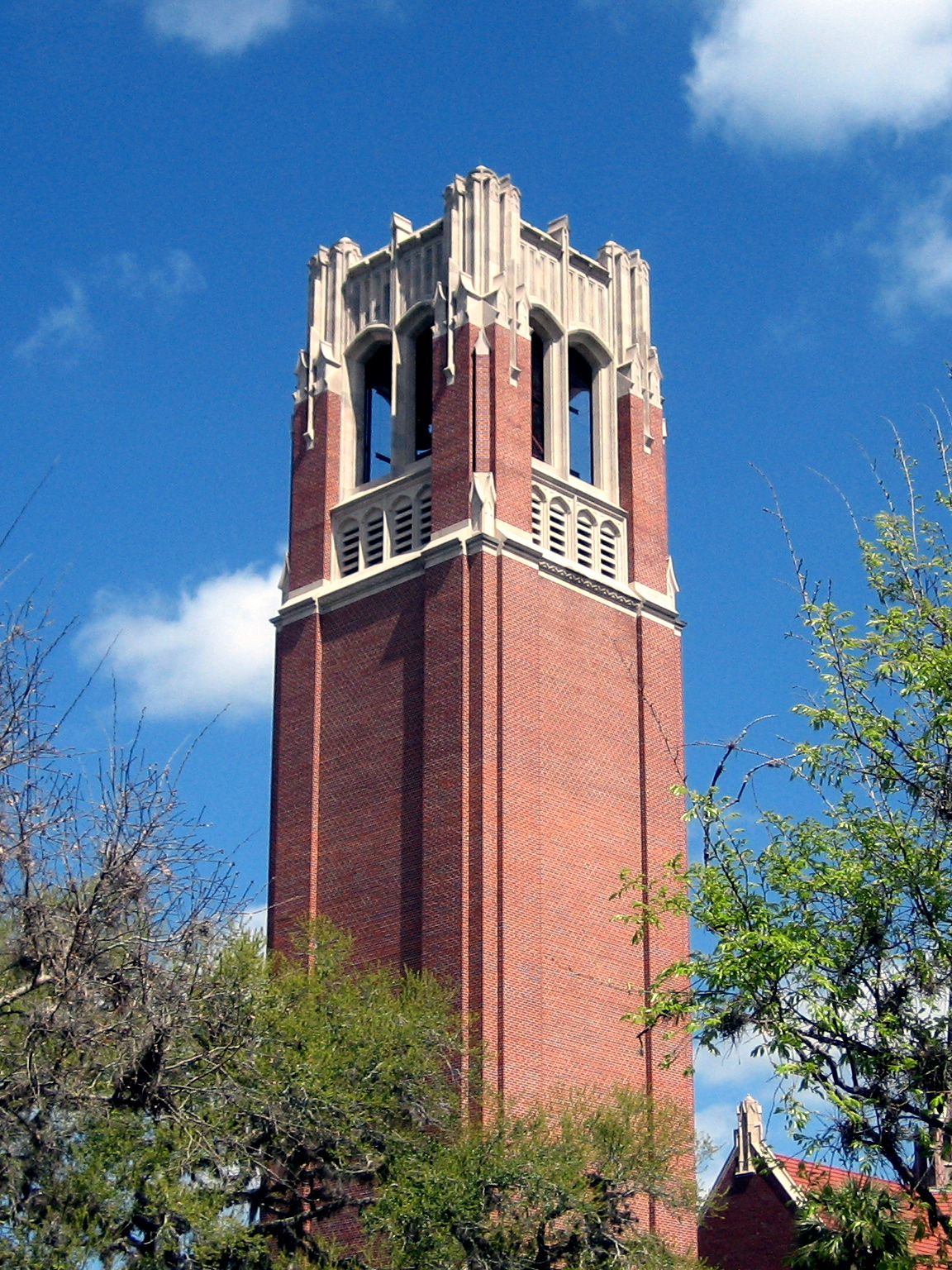 Century Tower as seen from CISE and Marston.